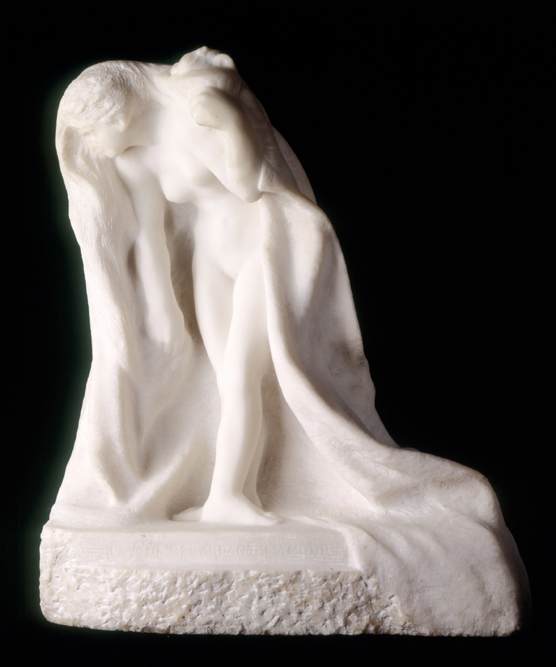 Psyche Regarding Love